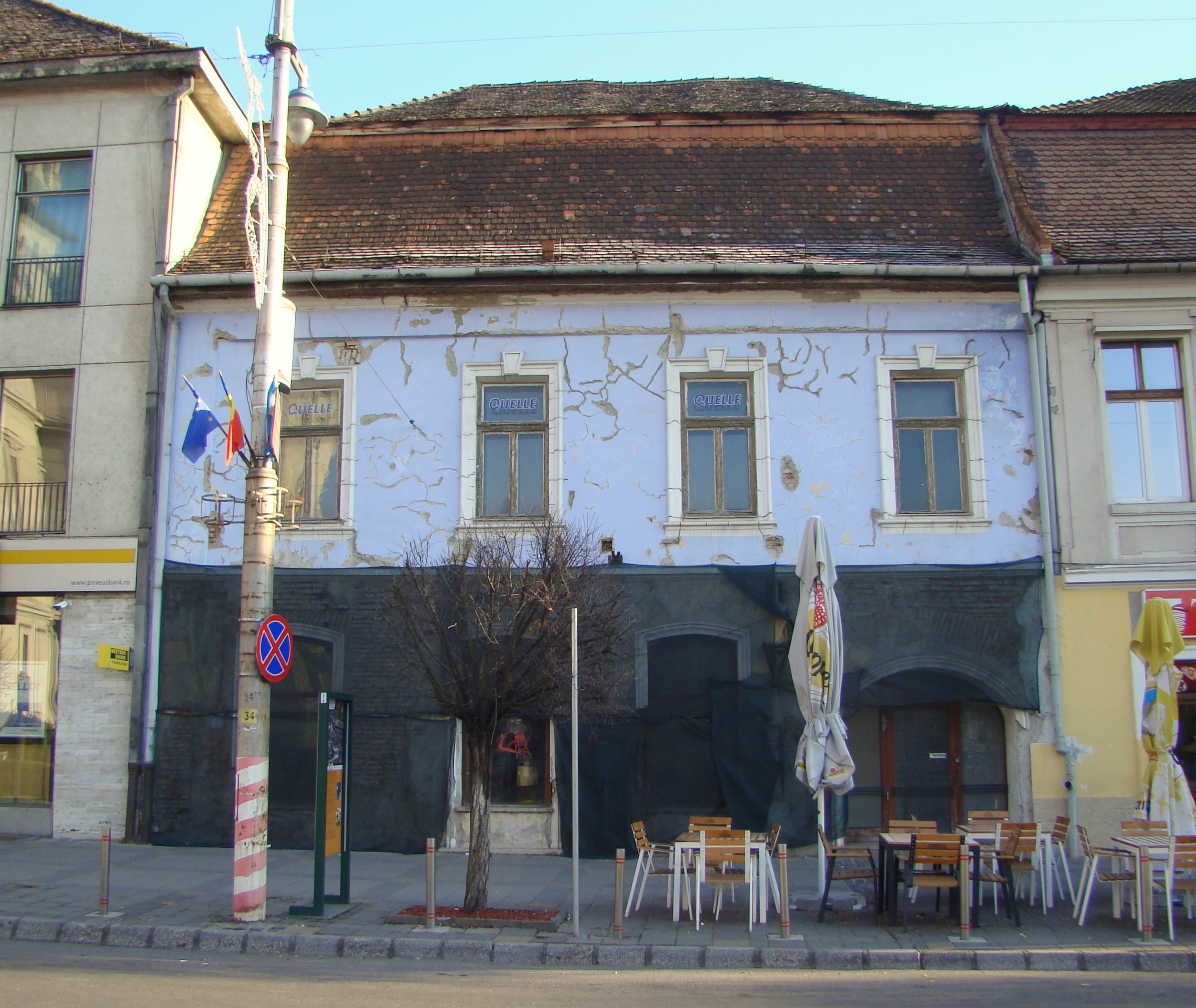 House, historic monument, in Târgu Mureș, Piața Trandafirilor 58